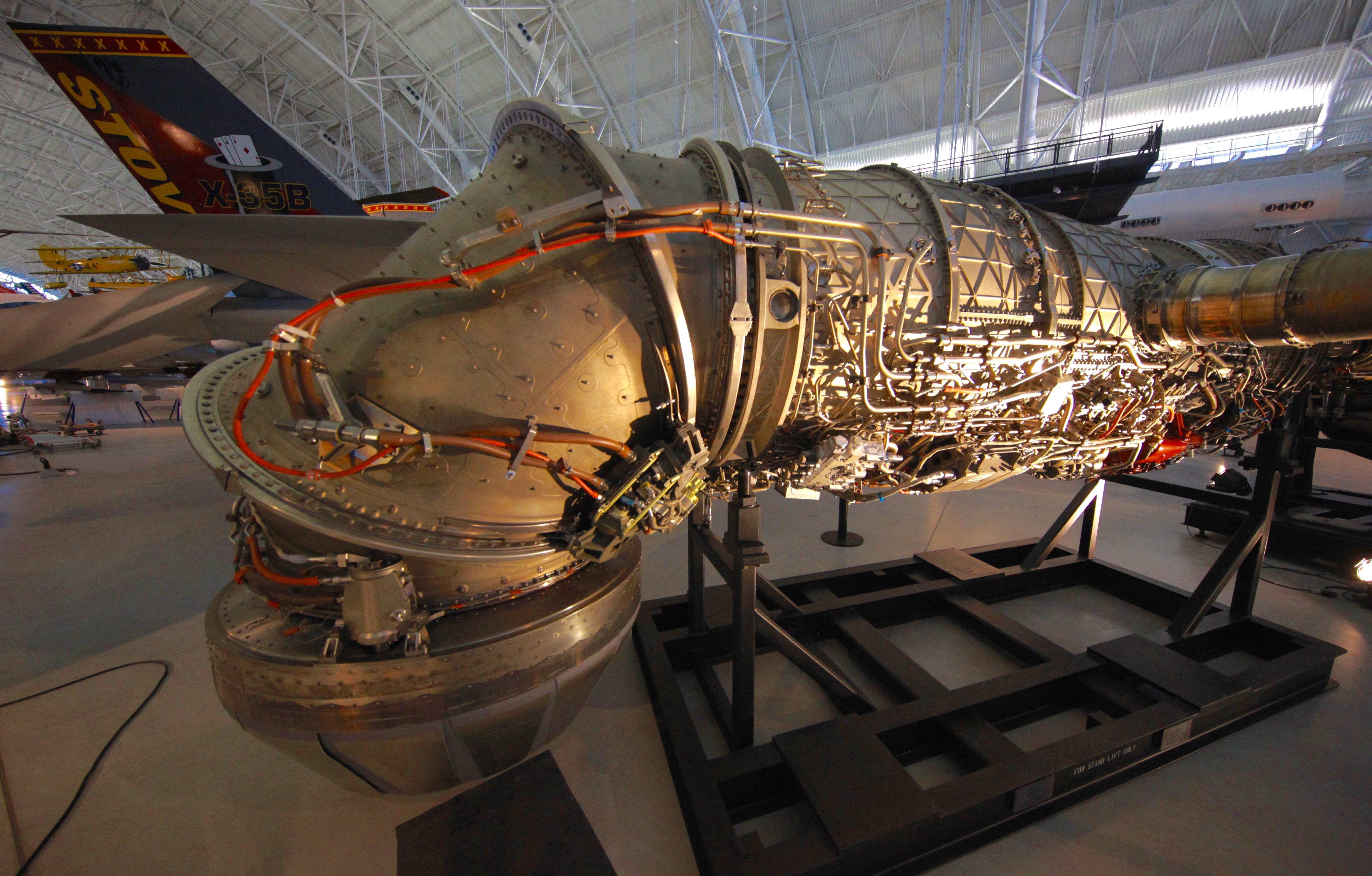 Hover fan of the Lockheed F35B